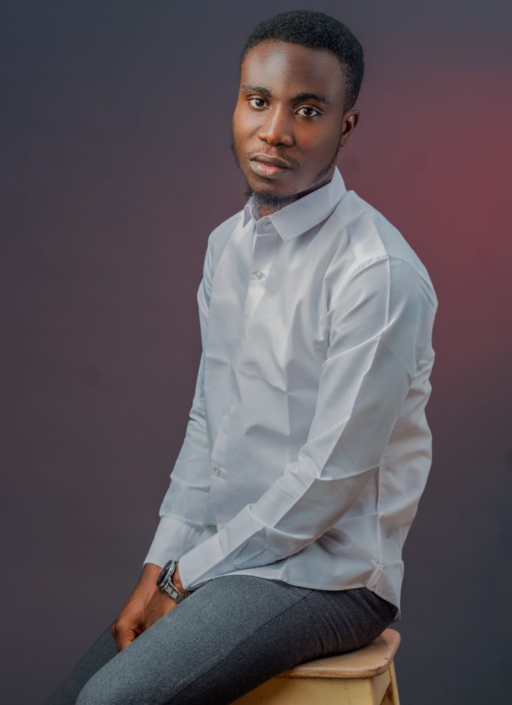 Osinachi.